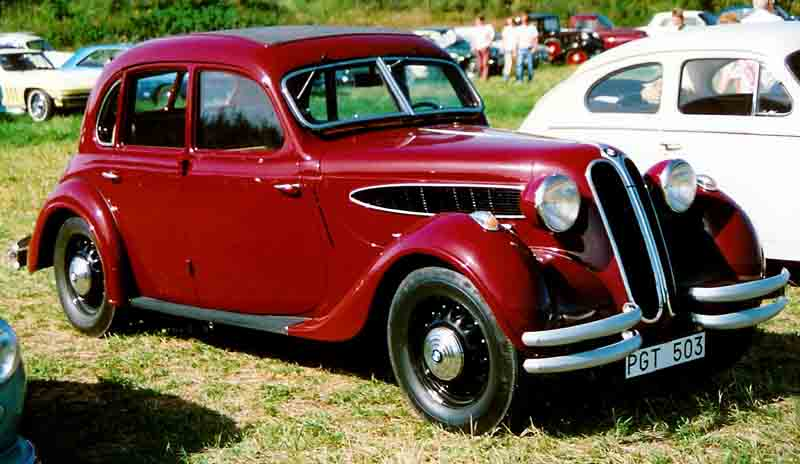 B.M.W. 326 Limousine 1938